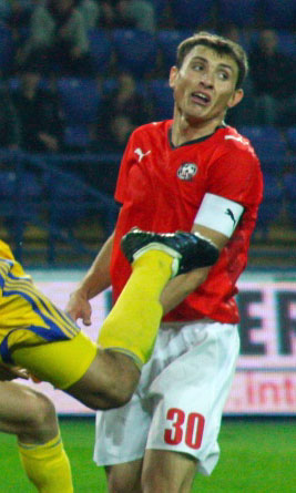 Oleksandr Maksymov, Ukrainian footballer, during the game for Kryvbas Kryvyi Rih